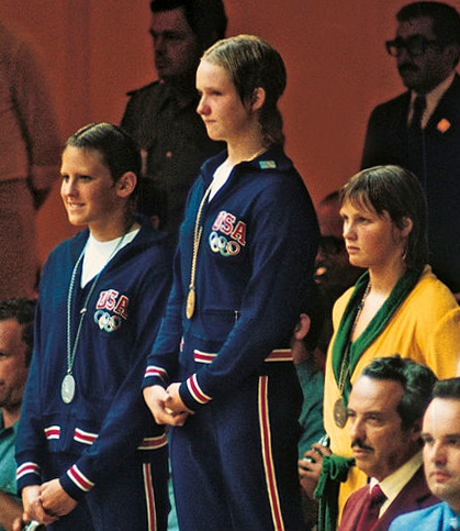 The young swimmers on the podium of the women's 100 metres freestyle; the winner Sandra Neilson, her fellow-American Shirley Babashoff, runner-up, and the Australian Shane Gould listen to the American national anthem. Munich, 29th August 1972.